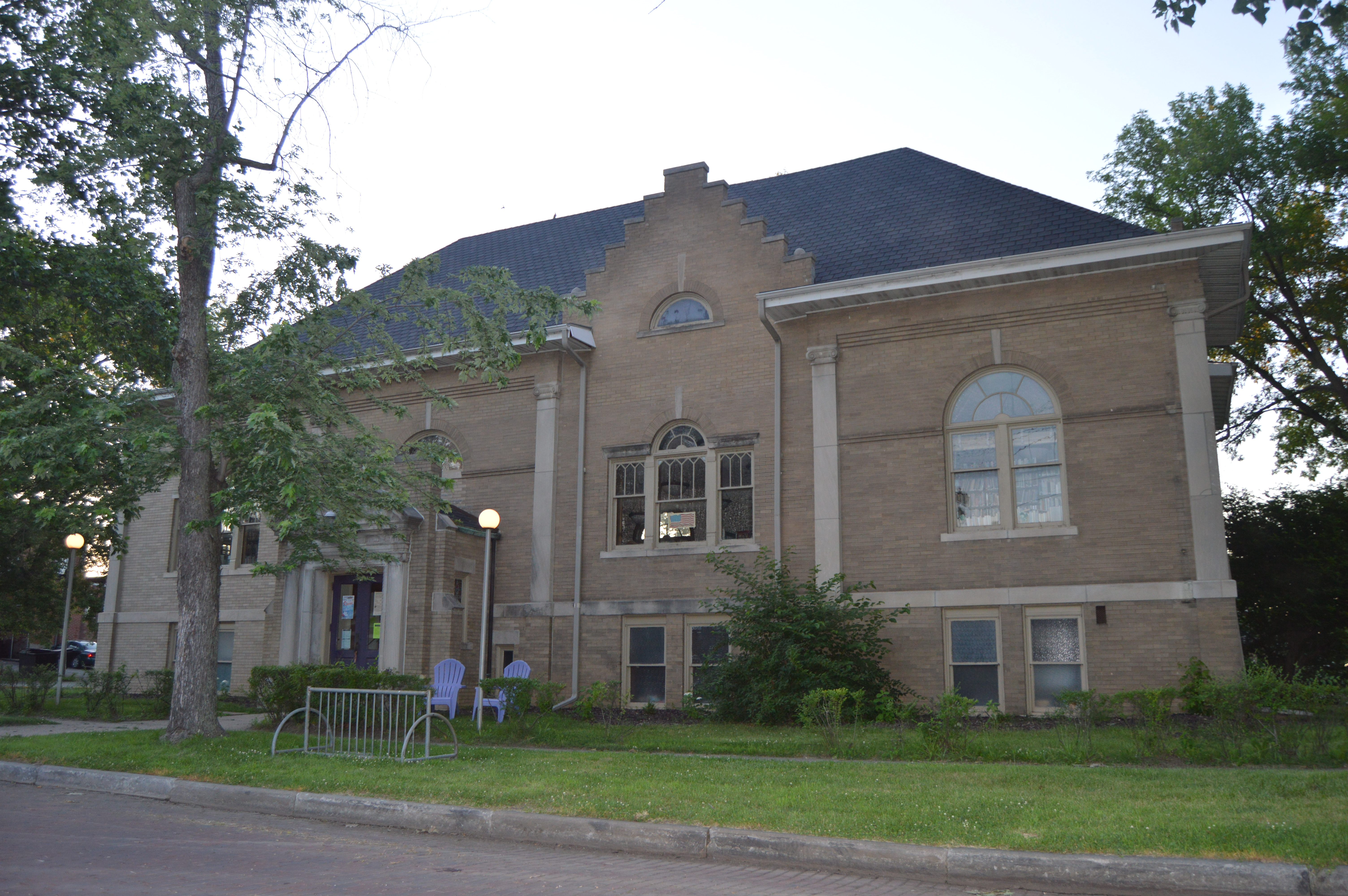 Front of the Havana Public Library, located at 201 W. Adams Street in Havana, Illinois, United States. Built in 1902, it is listed on the National Register of Historic Places.